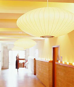 George Nelson (American, 1908-1986): Bubble lamp, designed in 1947 and manufactured by Howard Miller[1] from the early 1950s until 1979.